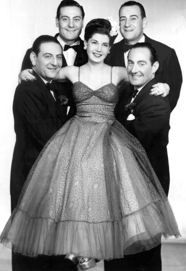 Photo of Guy Lombardo and his brothers and sister. The family performed on CBS Radio's Three Ring Time program. Clockwise from left: Guy, Victor, Lebert and Carmen. At center is sister Rose Marie.